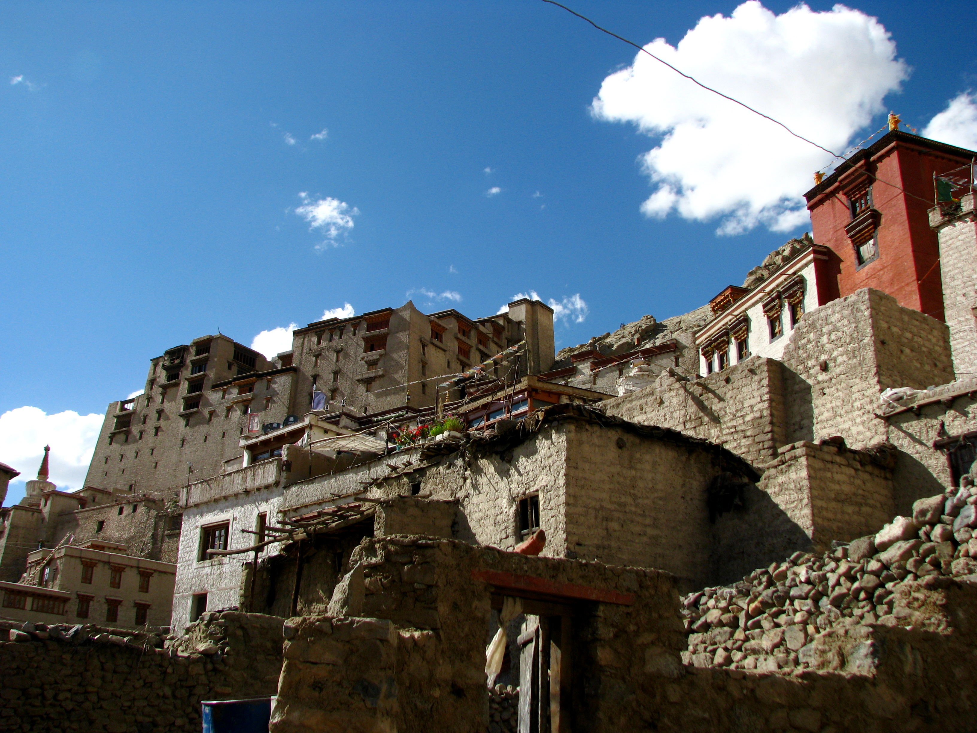 The dramatic face of the Leh Palace it sits above the old town, but is now unused, still mostly dillapidated and under renovation. Once they re-white-wash its steep walls, it might once again earn its moniker of "Mini Potala"